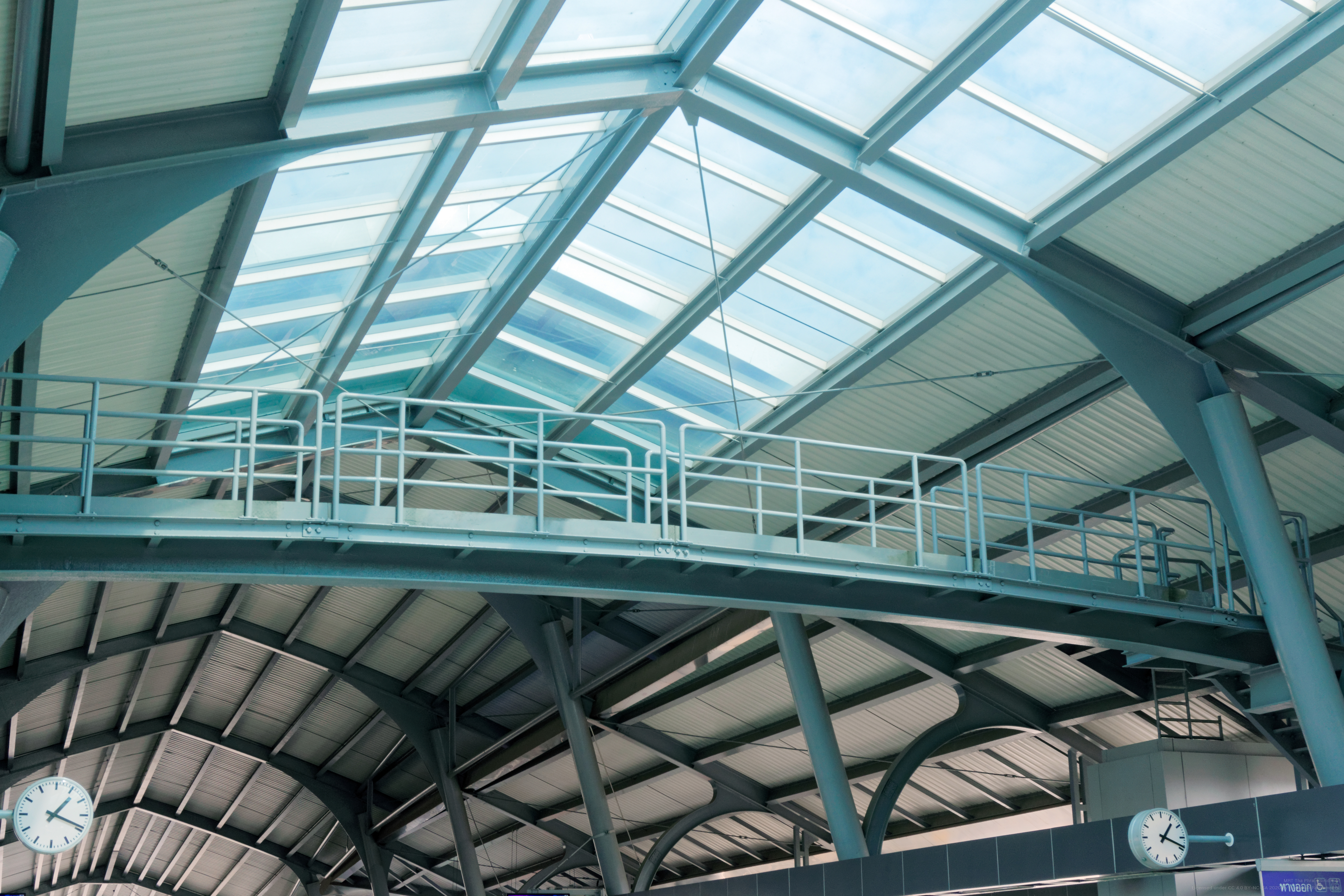 MRT Bang Khun Non – Platform crossing bridge. It was mainly use for moving the Buddha’s artifact from the canal in an anually tradition where the artifact won’t cross below the brige. It must be hoisted up from the canal and cross above.